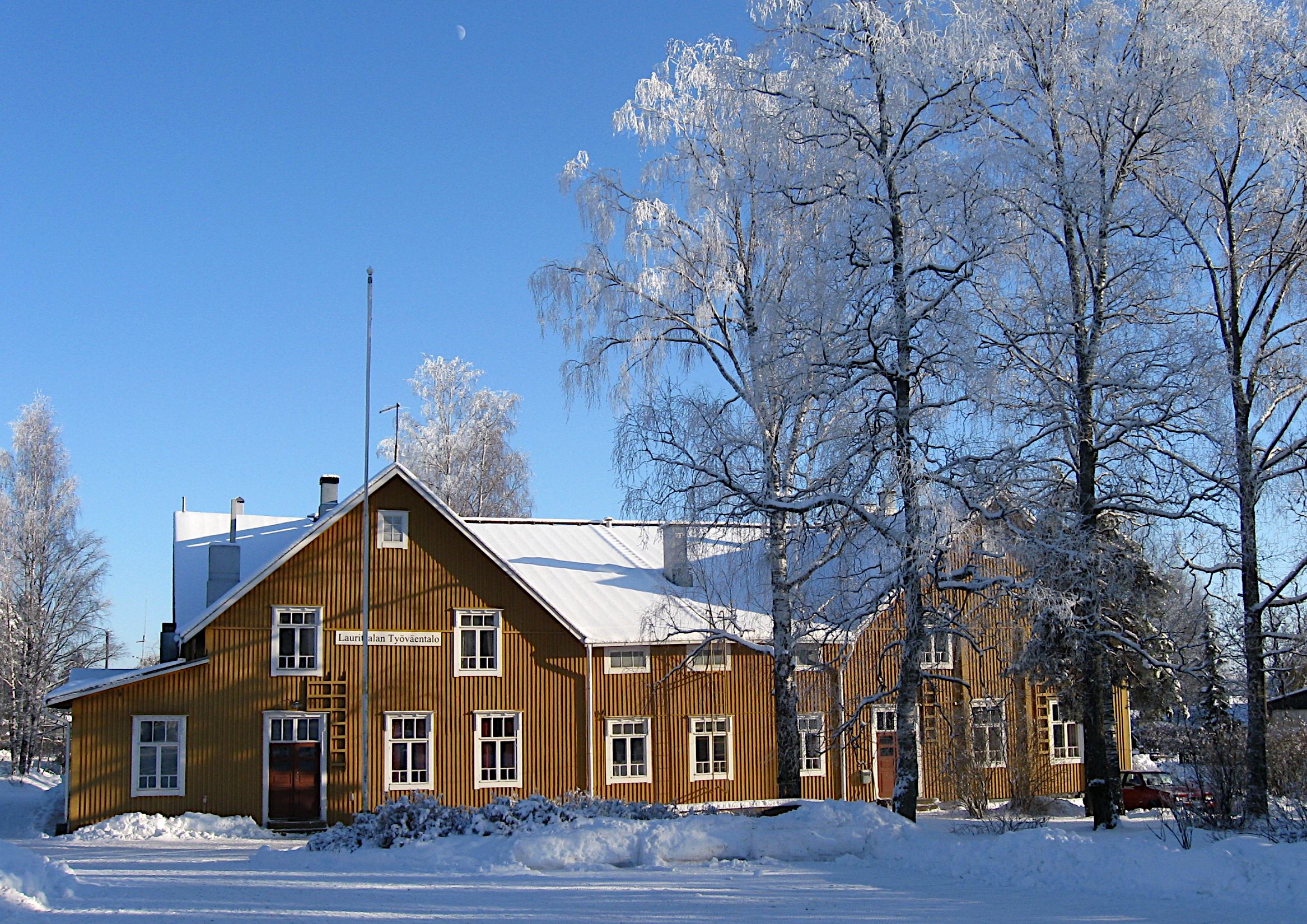 Lauritsala People's House (työväentalo) in Lappeenranta, Finland. Built in 1910.